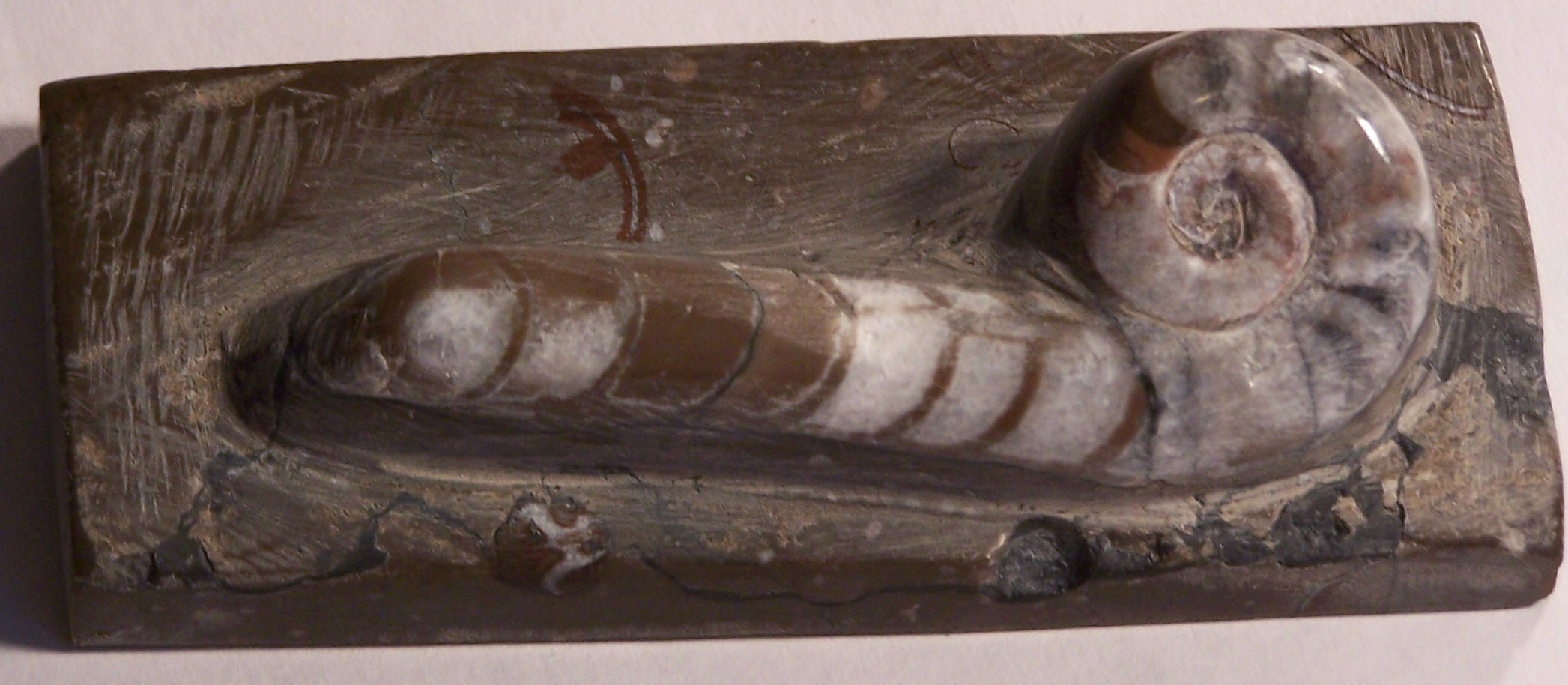 A Lituites species fossil from Hunan Province of China